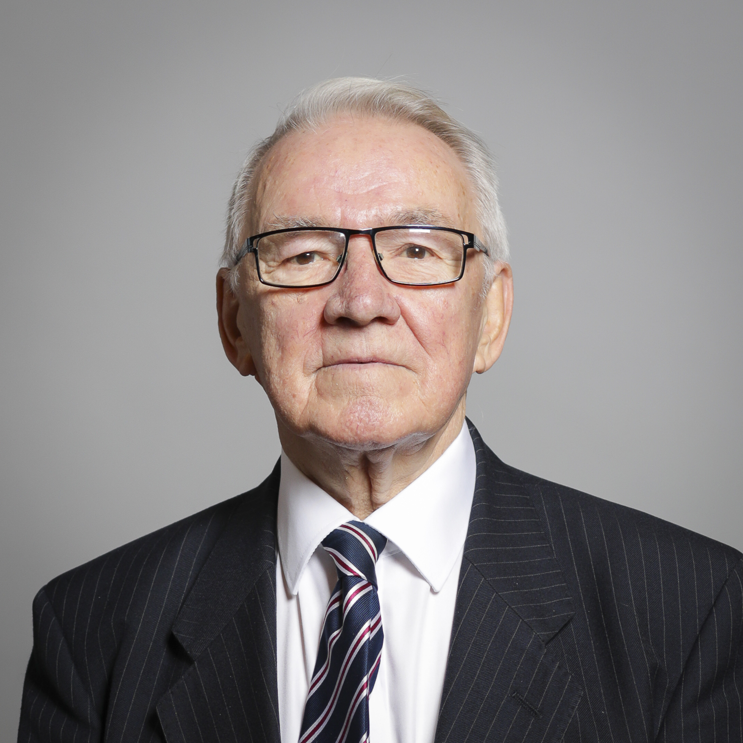 Official portrait of Lord Brookman 1×1 portrait of Lord Brookman